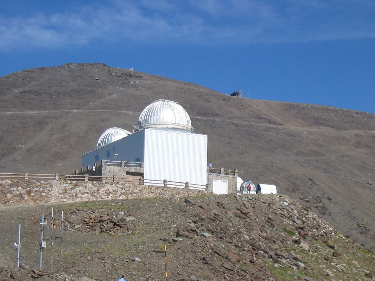 Observatorio de Sierra Nevada (OSN) near the mountain Loma de Dílar, in the Province of Granada runned by Instituto de Astrofísica de Andalucía. The observatory has 2 telescopes configured Nasmyth with 1.5 m and 0.90 m opening.